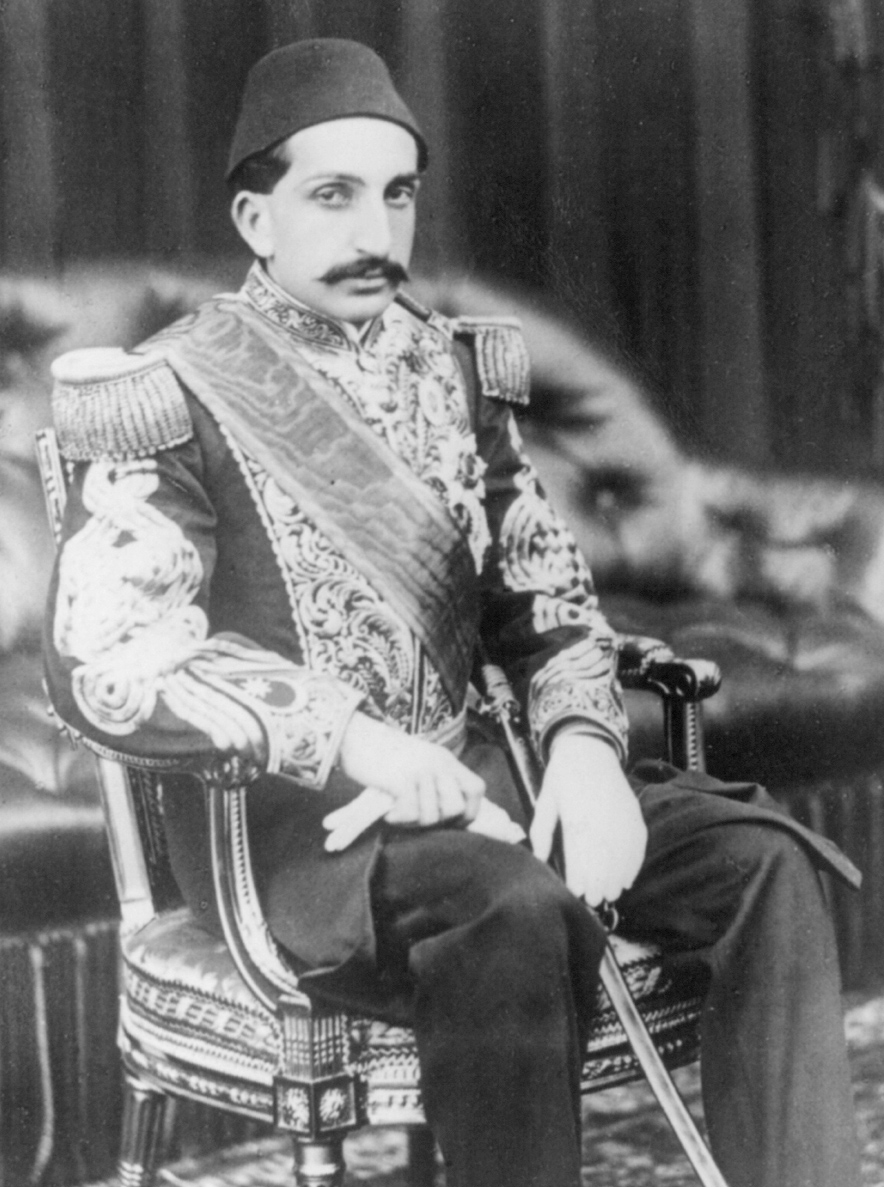 Shahzade Abdulhamid in Balmoral Castle in 1867.